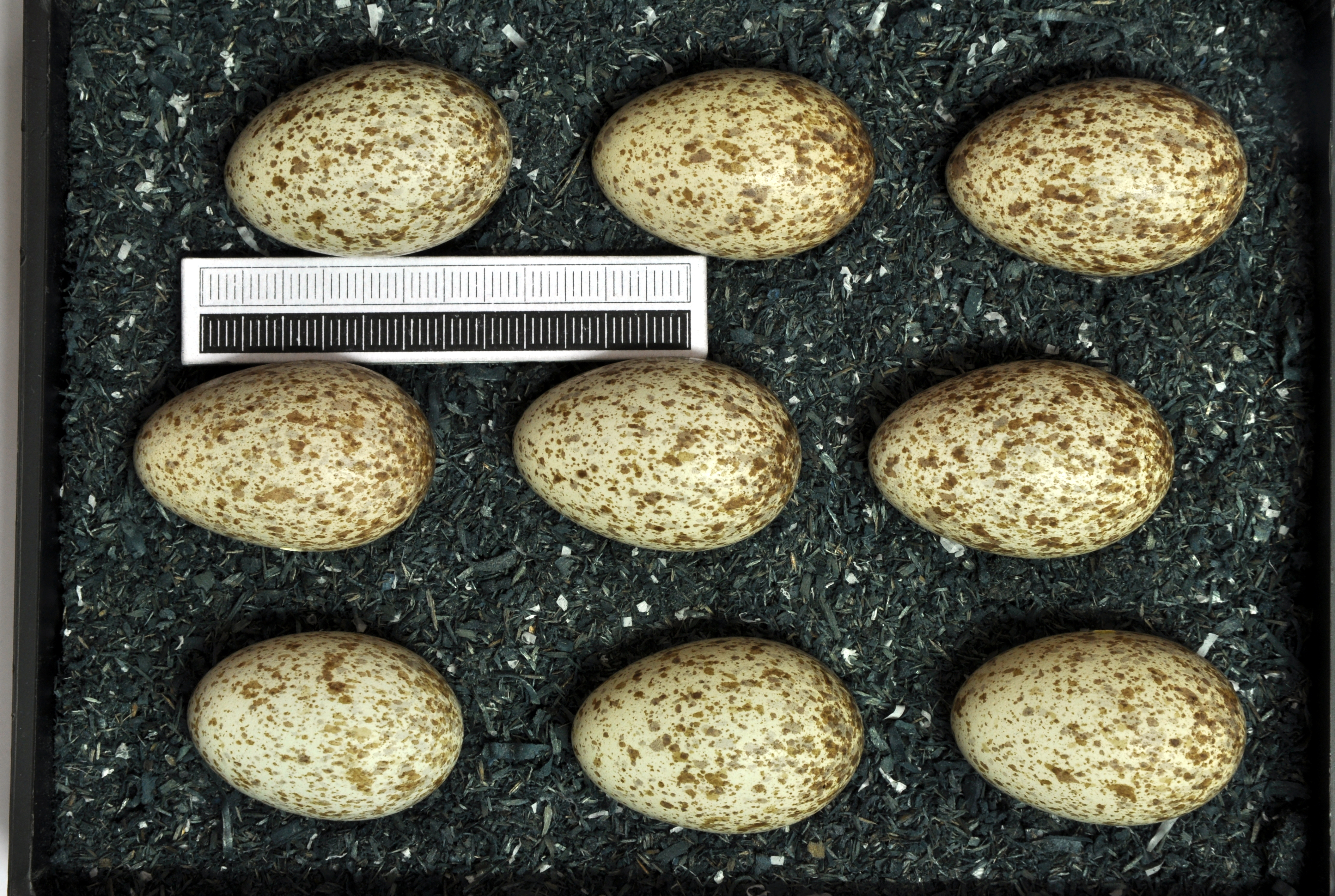 Eurasian magpie Pica pica, egg, Coll. Museum Wiesbaden, Origin: Ismaning, Bavaria, 27.04.1972, leg. W. Abelmann